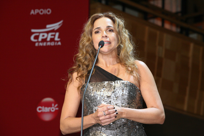 Daniela Mercury during the 5th edition of the award BRAVO! Prime de Cultura, delivering the award for best DVD.